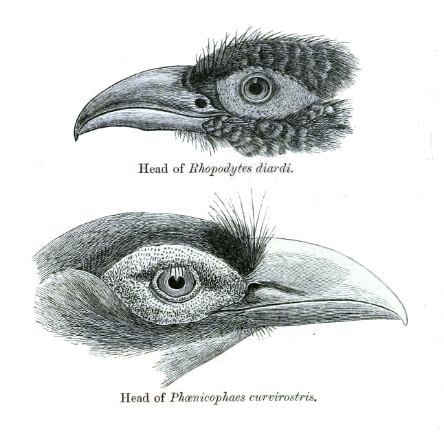 Heads of Rhopodytes diardi and Phaenicophaeus curvirostris